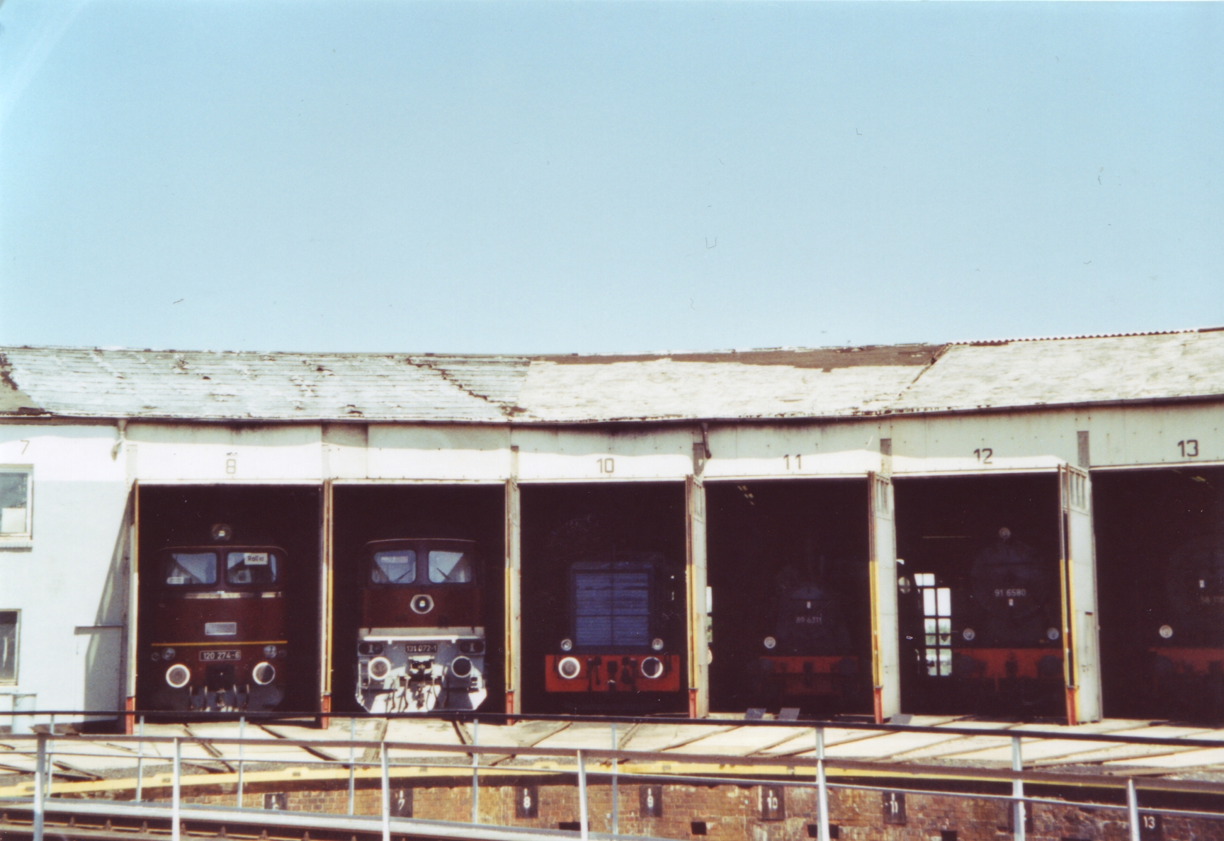 Bahnbetriebswerk Arnstadt.